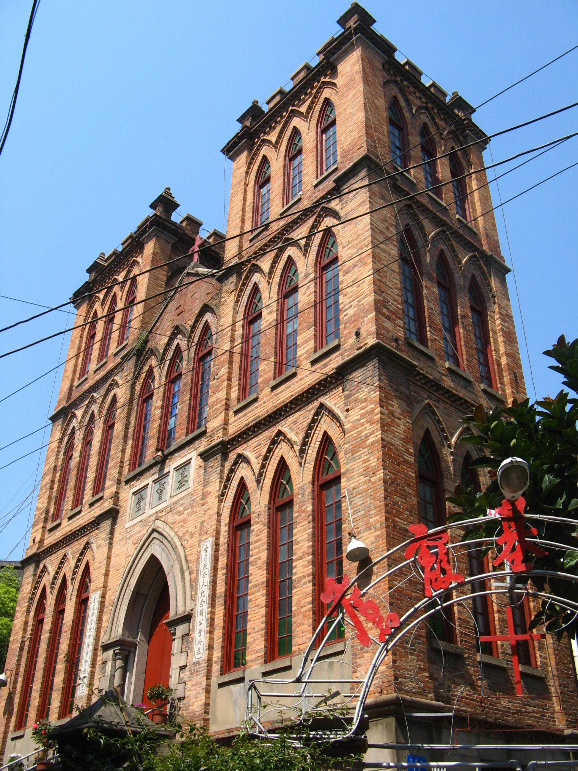 Cangxia Church, Fuzhou